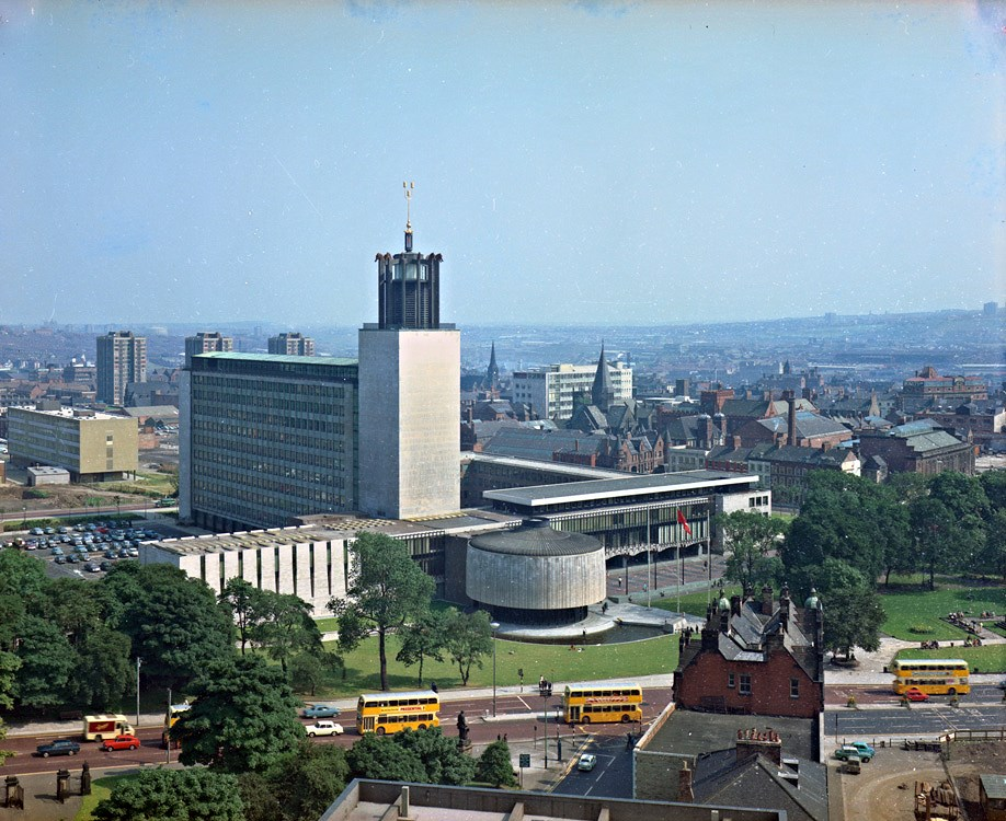 View of the new Civic Centre, Newcastle upon Tyne, taken from the roof of Newcastle University, July 1969 (TWAM ref. DT.TUR/4/4356A). You can see an aerial view of this area taken a few months earlier here . Tyne & Wear Archives presents a series of images taken by the Newcastle-based photographers Turners Ltd. The firm had an excellent reputation and was regularly commissioned by local businesses to take photographs of their products and their premises. Turners also sometimes took aerial and street views on their own account and many of those images have survived, giving us a fascinating glimpse of life in the North East of England in the second half of the Twentieth Century. (Copyright) We're happy for you to share these digital images within the spirit of The Commons. Please cite 'Tyne & Wear Archives & Museums' when reusing. Certain restrictions on high quality reproductions and commercial use of the original physical version apply though; if you're unsure please